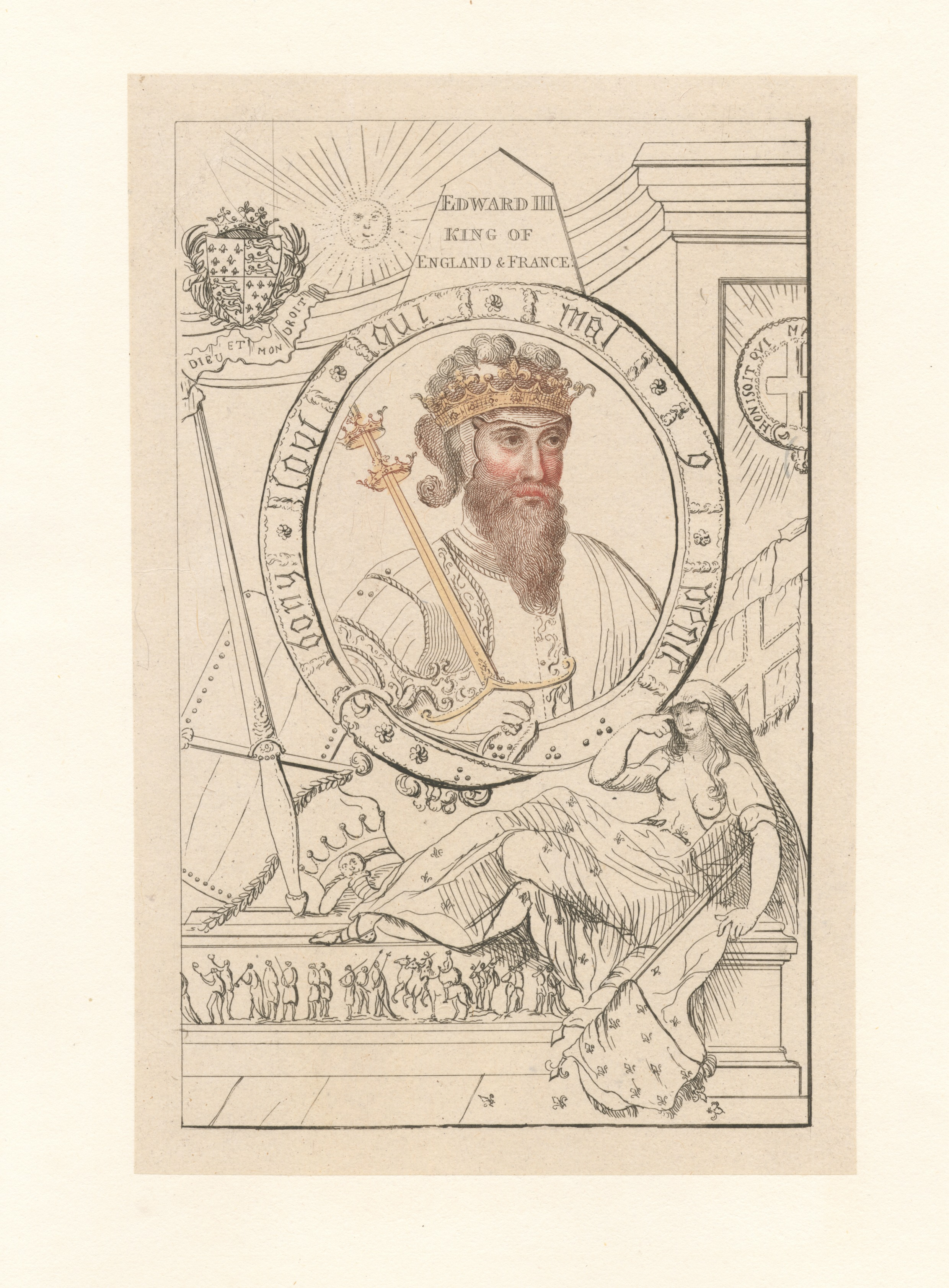 EM3373